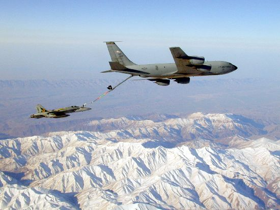 Manufacturer: Boeing Designation: KC-135 Official Nickname: Stratotanker